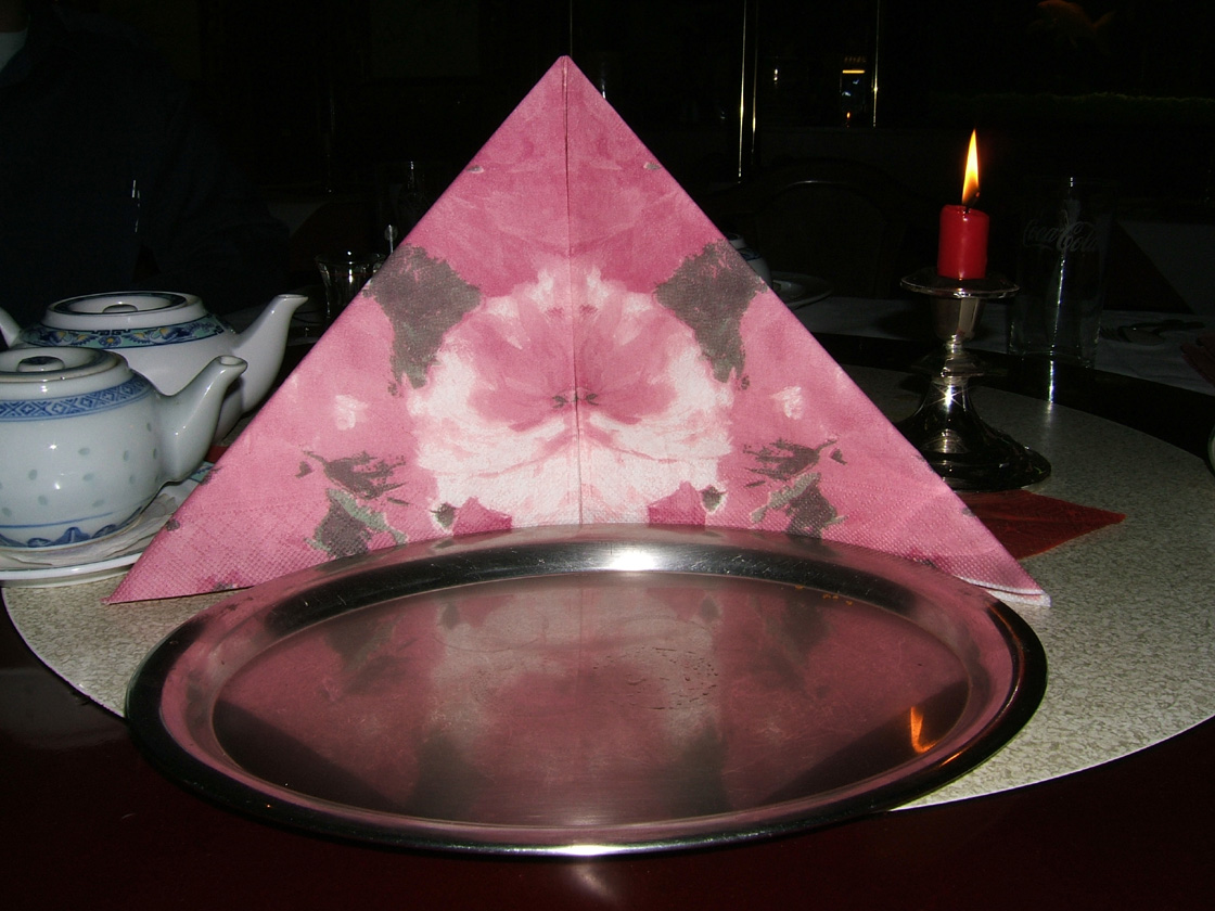 Empty tray after serving plumwine in a chinese restaurant